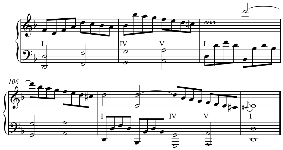 I-IV-V-I in Scarlatti's Sonata in D Minor, K. 517.